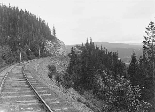 Meråker Line in Meråker, Norway